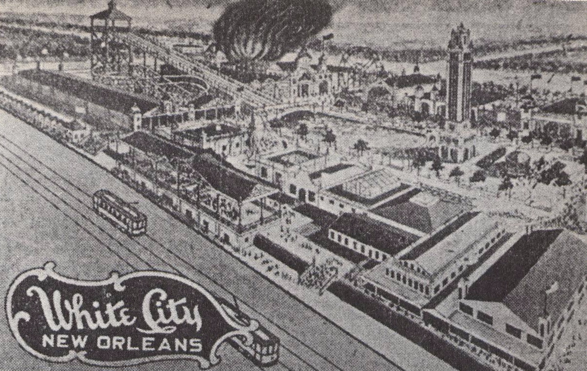 "White City" amusement park in New Orleans, Louisiana. 1908. Park was at Carrollton Avenue's downtown river corner intersection with Tulane Avenue, 1907 - 1913. Artist' "bird's eye" view shows the park fronting Carrollton Avenue with the Carrollton/Tulane Belt streetcar line running in front, various amusement rides, and what looks like a large blazing fire at one corner.